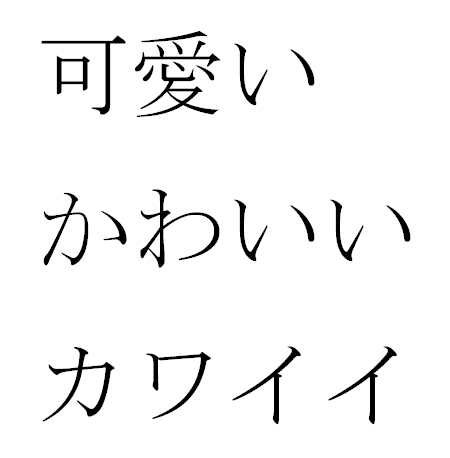 Written form of the Japanese word kawaii ("cute") in kanji, hiragana and katakana scripts